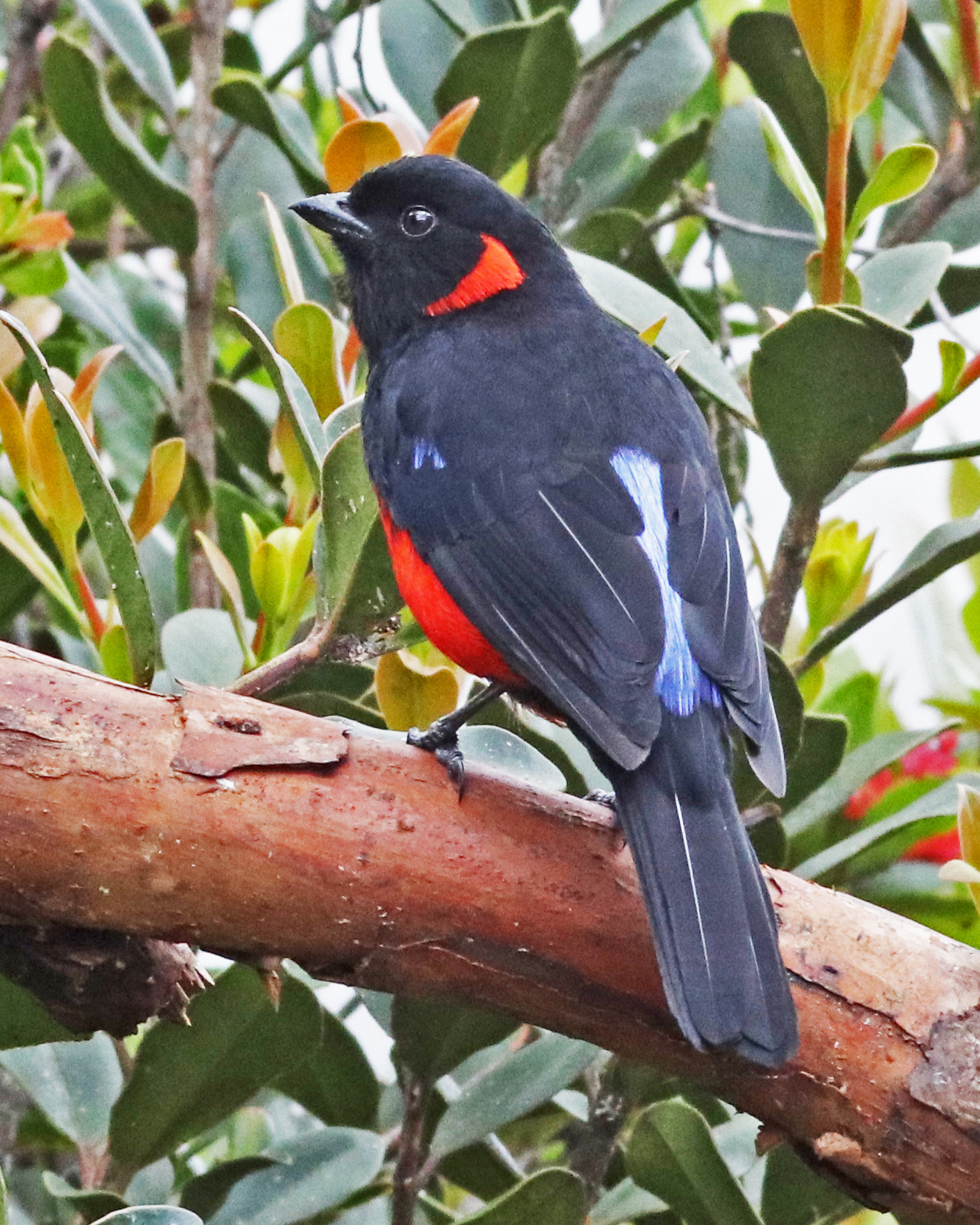 Scarlet-bellied Mountain-Tanager resting on a branch in Yanacocha Reserve, Ecuador